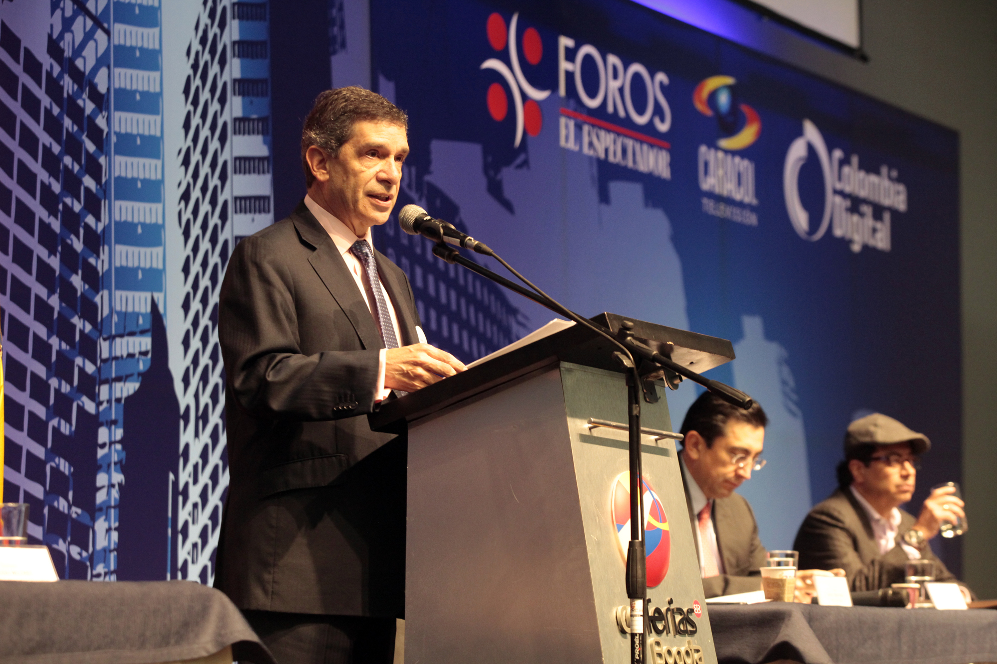 Miniter of Labour of Colombia, Rafael Pardo Rueda in 2012 at the launch of Teletrabajo in Bogotá .